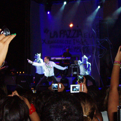 Italian singer Marco Mengoni during a date of his "Re Matto Tour" at San Benedetto del Tronto.